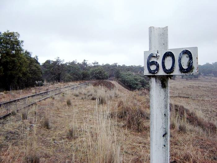 The Main North Line at Exmouth near Armidale, New South Wales. Taken by Kiwifruitboi June 2005. Kiwifruitboi 10:05, 6 January 2006 (UTC)